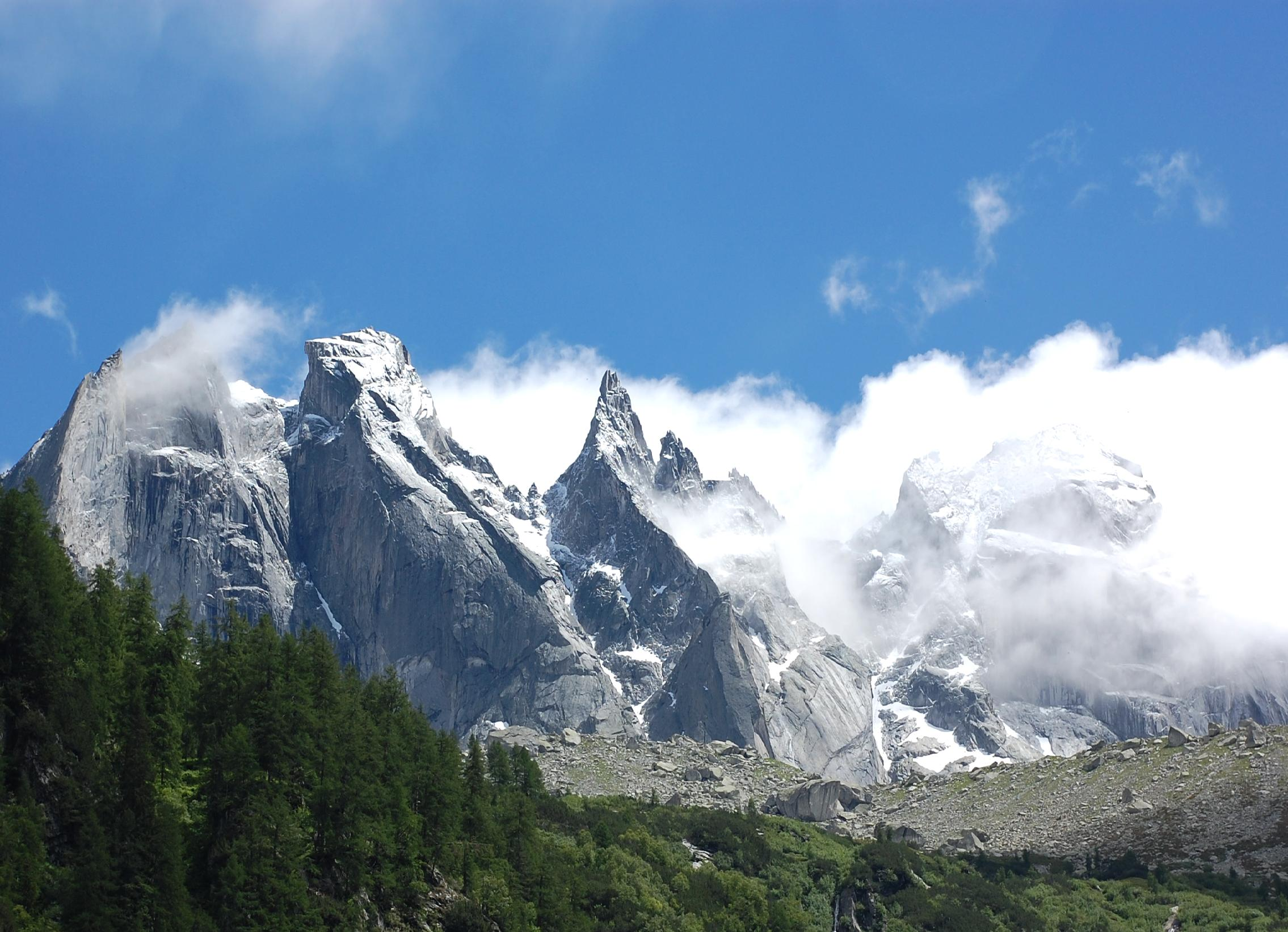 Sciora peaks, Graubünden. From left to right: Sciora Dafora, Punta Pioda, Ago di Sciora (the needle), Sciora Dadent.